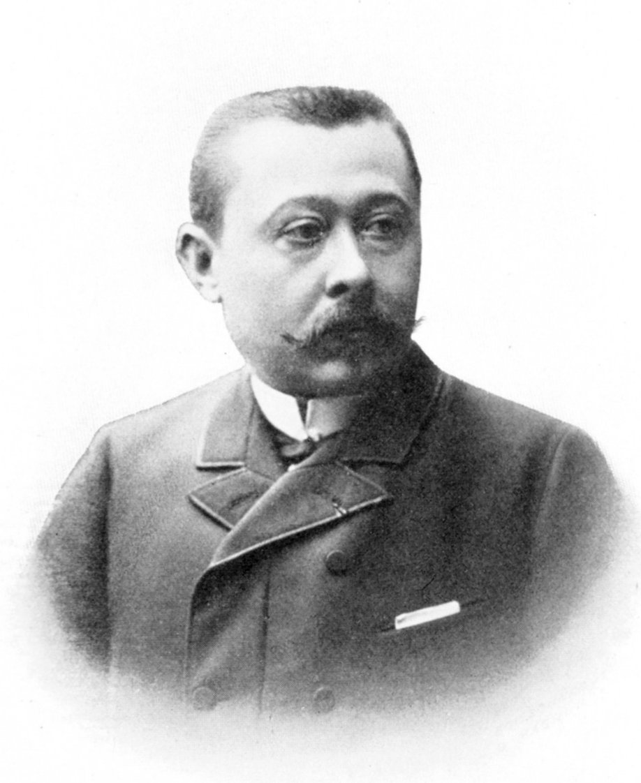 Picture of the physician Leon Testut